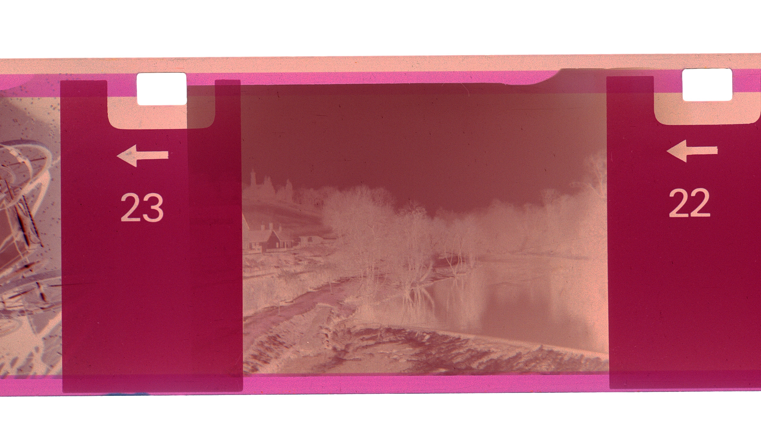 Close-up of a 110-format film negative as seen in my film scanner. (Photo itself is of River Ericht passing through Blairgowrie, Scotland in winter.)